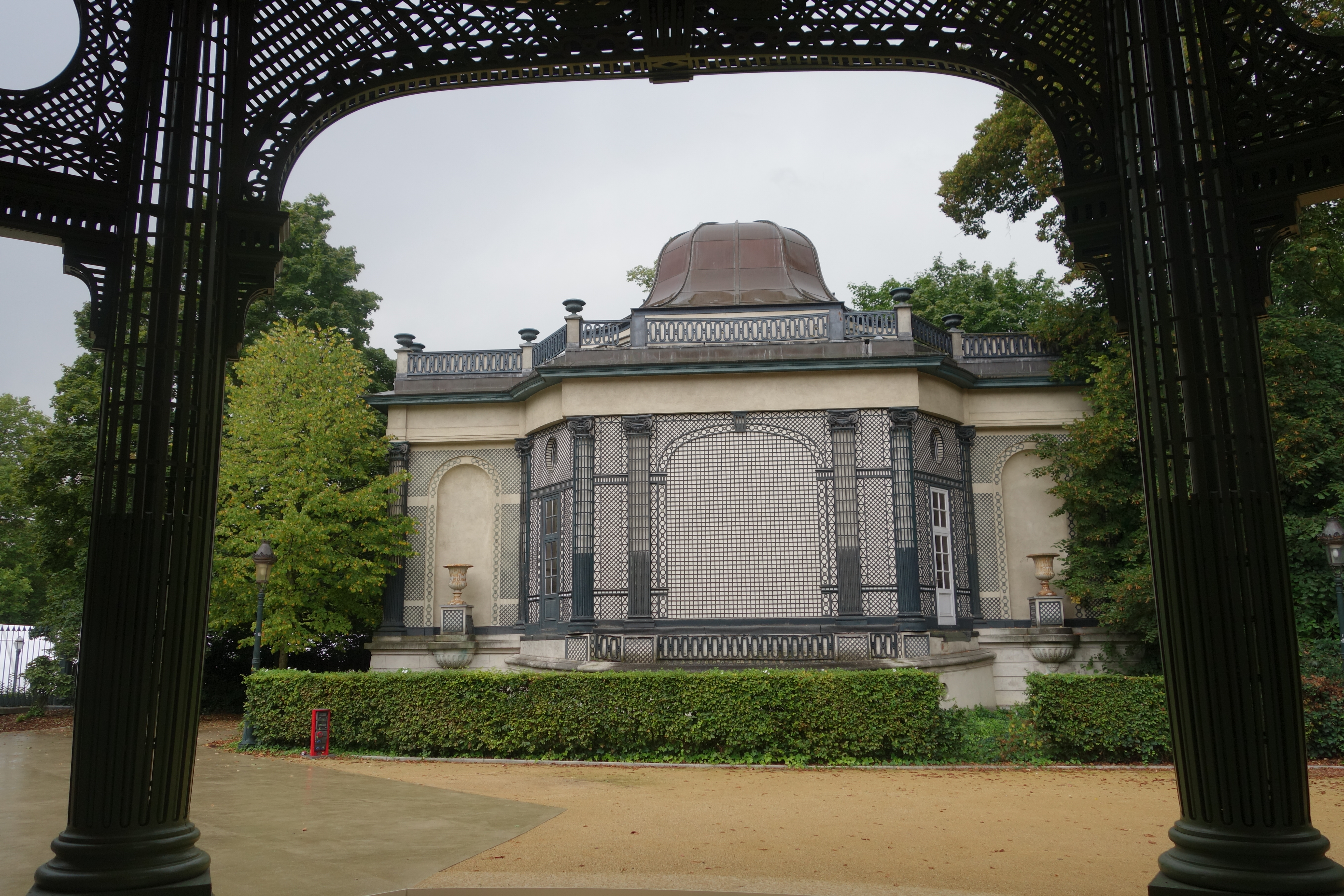 Waux Hall in Brussels